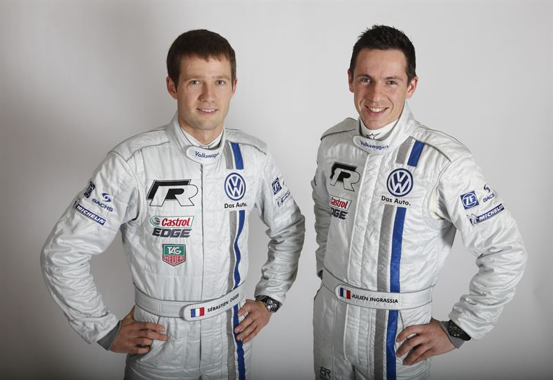 Sébastien Ogier (left) and Julien Ingrassia as newly signed Volkswagen Motorsport drivers.